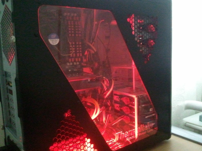 Thermaltake V9 Case.